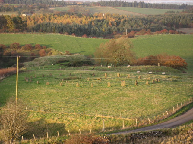 Faux Stone Circle, from The Knock